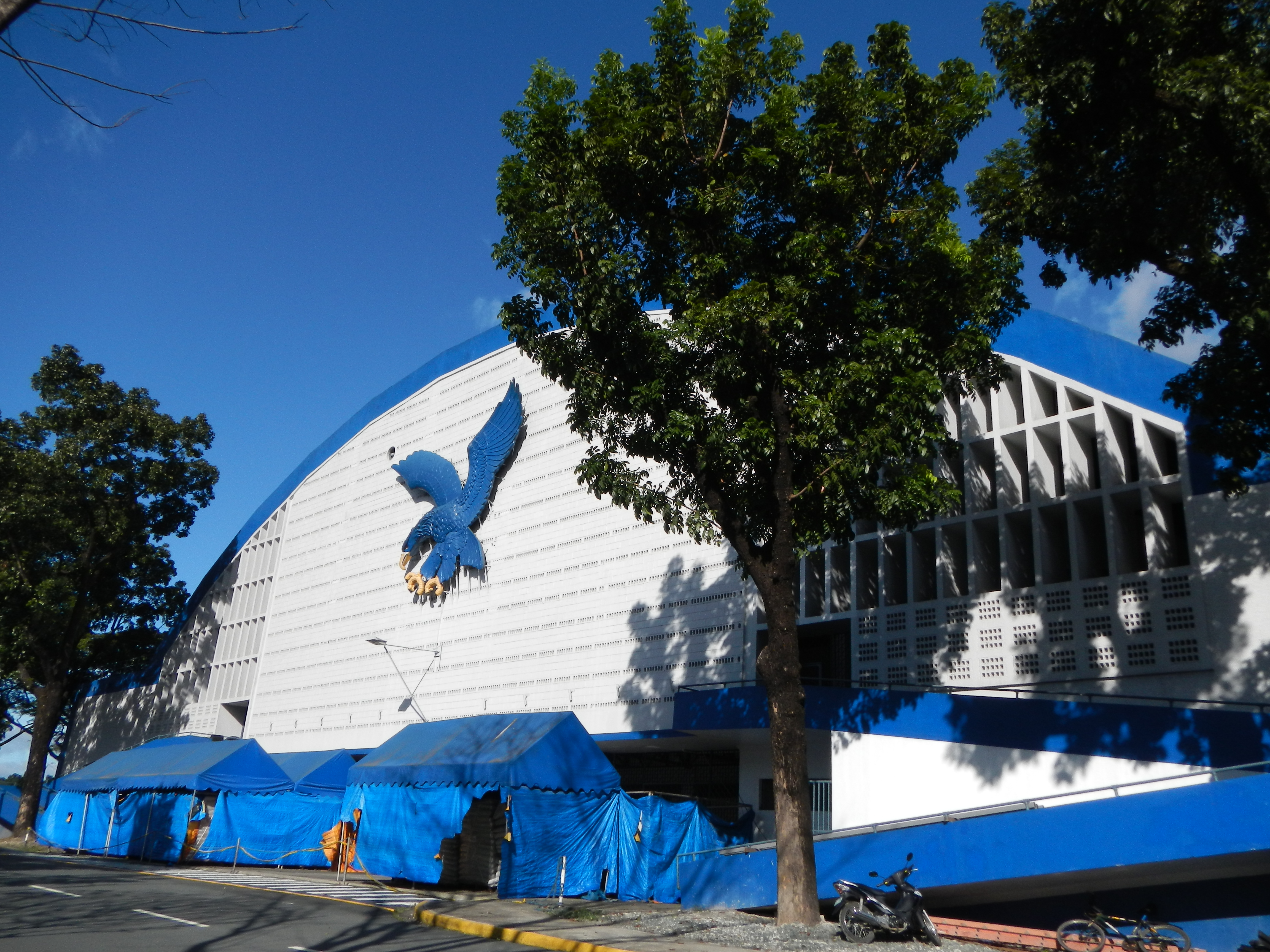 Blue Eagle Gym [1] Ateneo de Manila University [2]